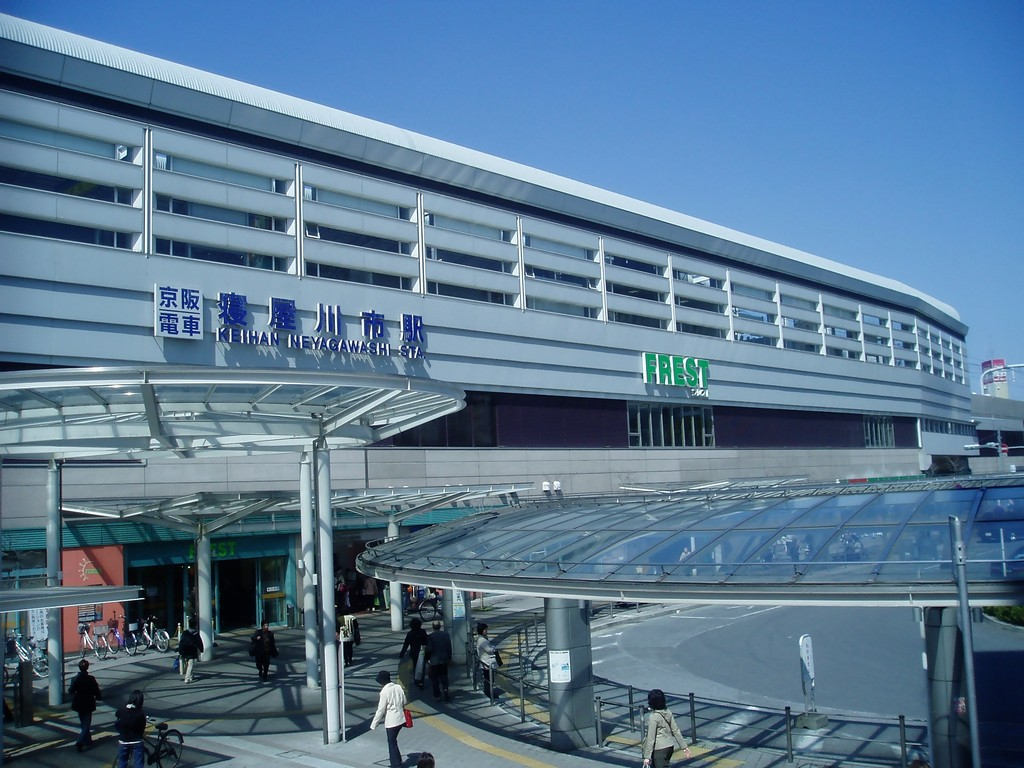 East entrance of Neyagawa-shi Station(Keihan-Railway-Main-line)